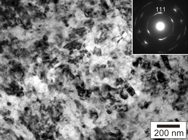 (a) Schematic illustration of the formation of mosaic texture through martensitic transformation from single crystal graphite to diamond. (b) TEM image and corresponding ED pattern of nano-polycrystalline diamond synthesized from single crystal (Kish) graphite at 15 GPa, 2300 °C.